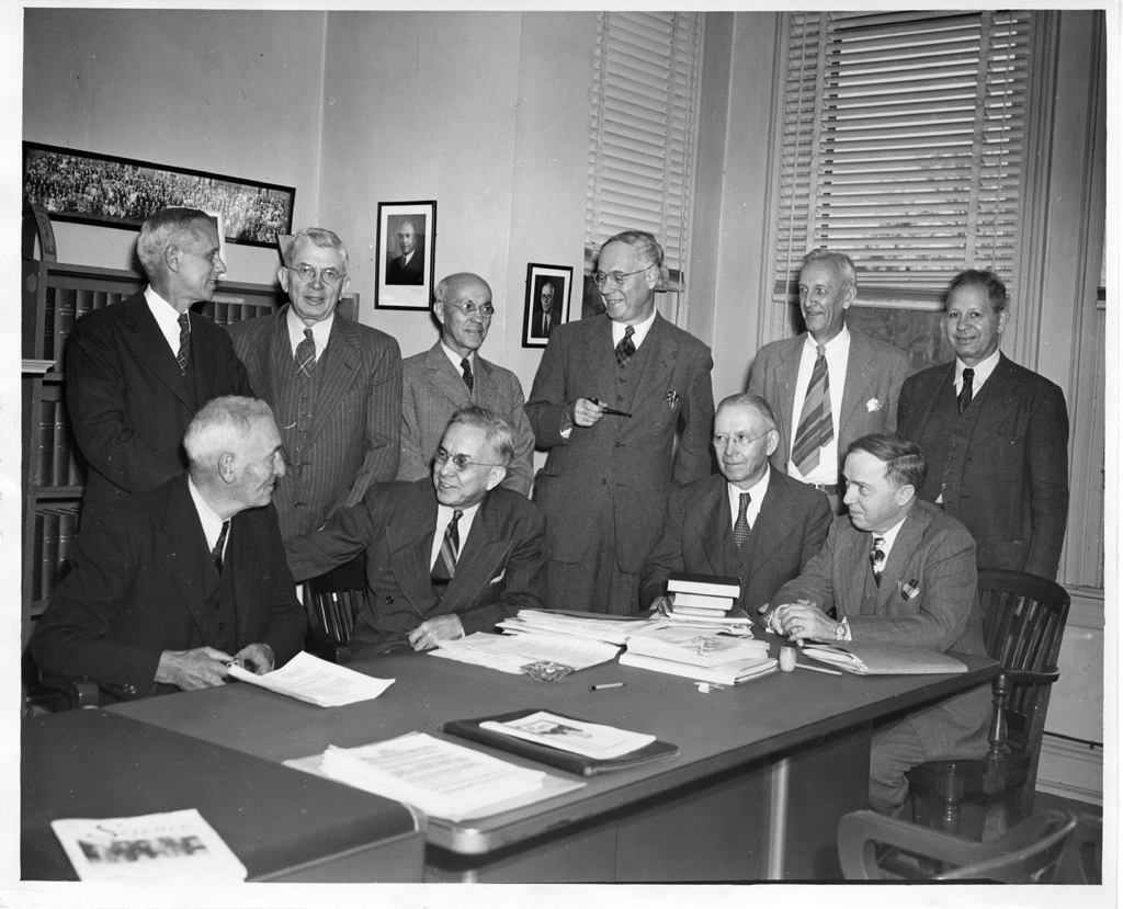 Summary: Photo of officers and senior officials of the American Association for the Advancement of Science (AAAS) in 1947. Anton Julius Carlson (1875-1956) was Professor of Physiology, University of Chicago; Kirtley Mather (1888-1978) was Professor of Geology, Harvard University; Forest Ray Moulton (1872-1952) was Executive Director of the American Association for the Advancement of Science; and Harlow Shapley (1885-1972) was Professor of Astronomy, Harvard University, and AAAS President. Edmund Ware Sinnott (1888-1968) was Professor of Botany, Yale University, and AAAS President-Elect; George Alfred Baitsel (1885-1971) was Professor of Biology, Yale University; Fernandus Payne (1881-1977) was Professor of Zoology and Genetics, Indiana University; Karl Lark-Horovitz (1892-1958) was Professor of Physics, Purdue University; Walter Richard Miles (1885-1978) was Professor of Psychology, Yale University; and Elvin Charles Stakman (1885-1979) was Professor of Plant Pathology, University of Minnesota Subject: Carlson, Anton J (Anton Julius) 1875-1956 Baitsell, George Alfred 1885-1971 Payne, Fernandus 1881-1977 Shapley, Harlow 1885-1972 Sinnott, Edmund W (Edmund Ware) 1888-1968 Stakman, E. C (Elvin Charles) 1885-1979 Lark-Horovitz, K (Karl) 1892-1958 Mather, Kirtley F (Kirtley Fletcher) 1888-1978 Miles, Walter R (Walter Richard) b. 1885 Moulton, Forest Ray 1872-1952 American Association for the Advancement of Science Harvard University University of Minnesota Yale University Purdue University University of Chicago Indiana University